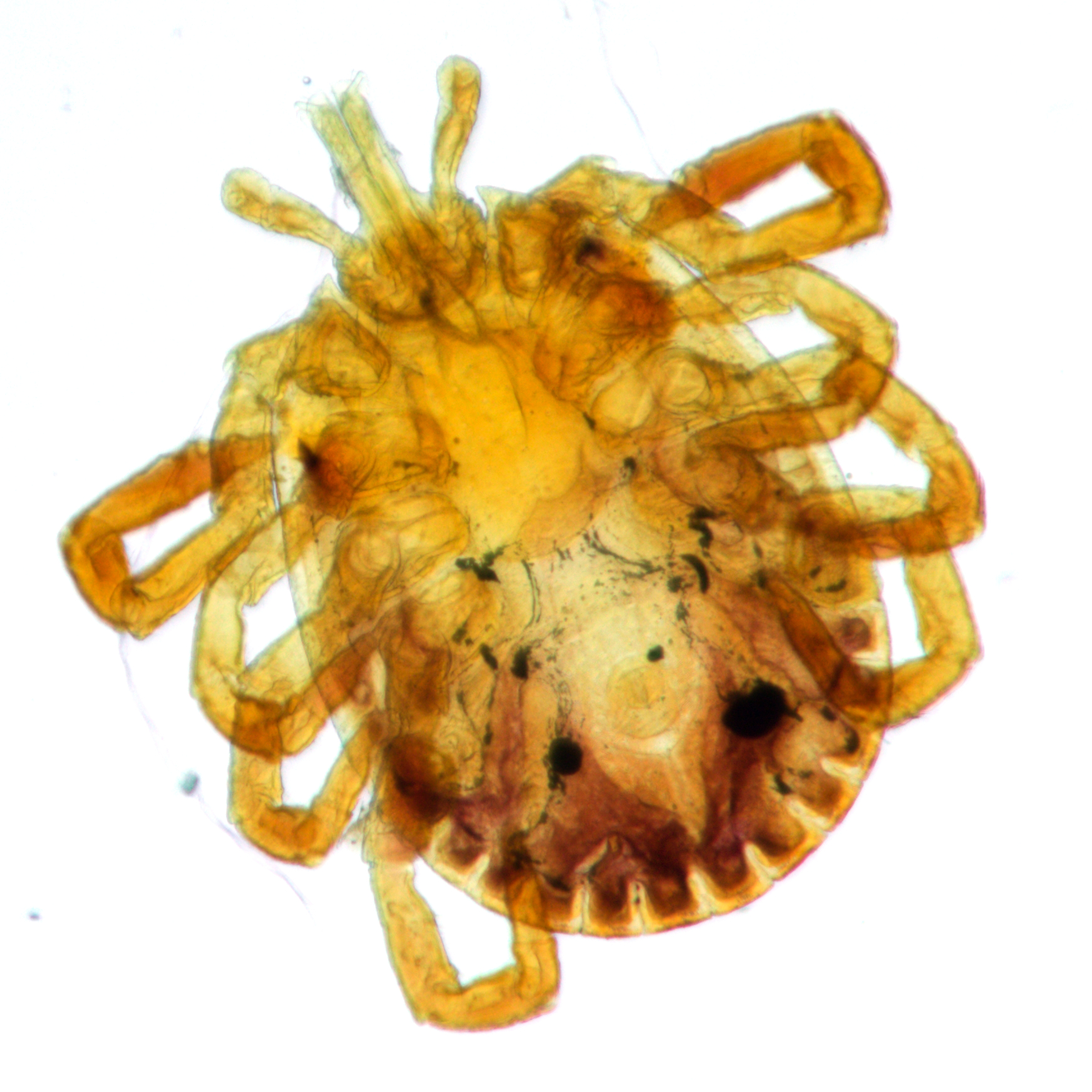 Amblyomma cajennense or "carrapato estrela" from a microscope glass of 60's in Canada balsam, these were a gift from brazilian reserarcher Maria Inês Machado